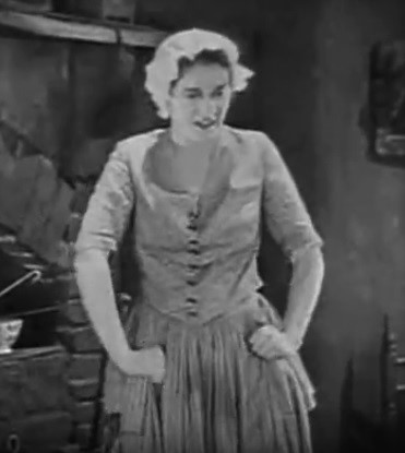 Joan Standing in Oliver Twist - cropped screenshot